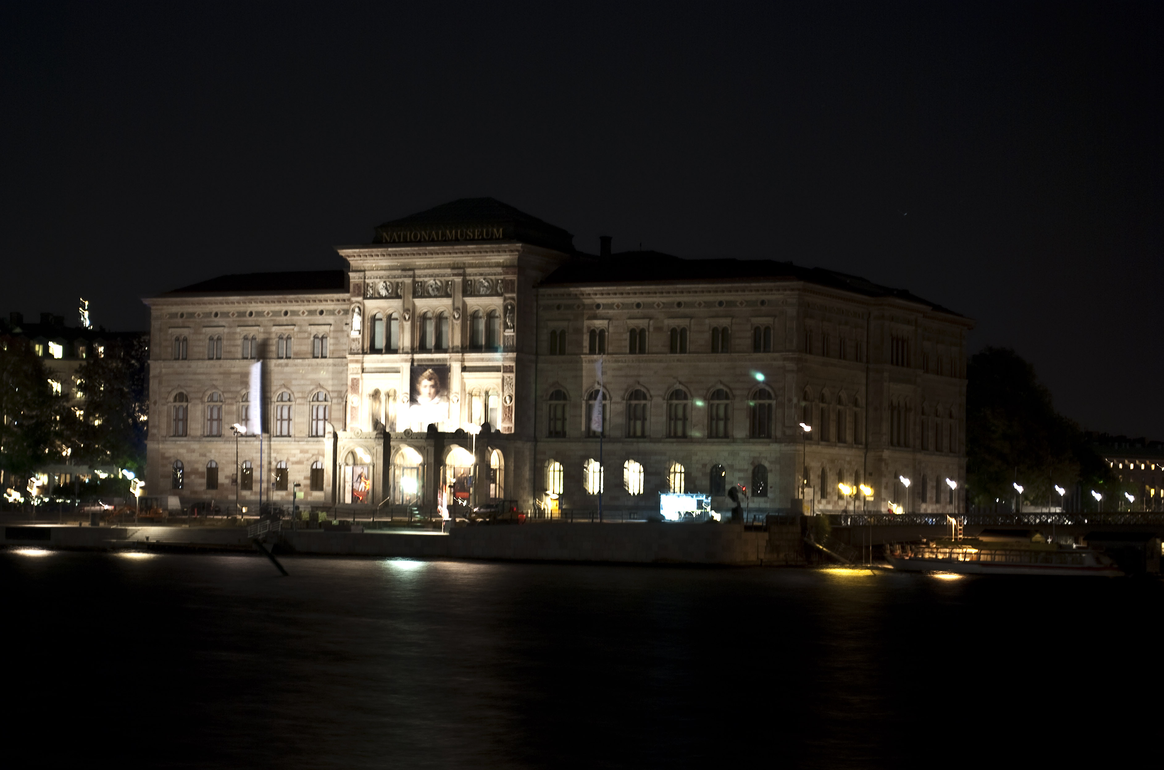 Stockholm